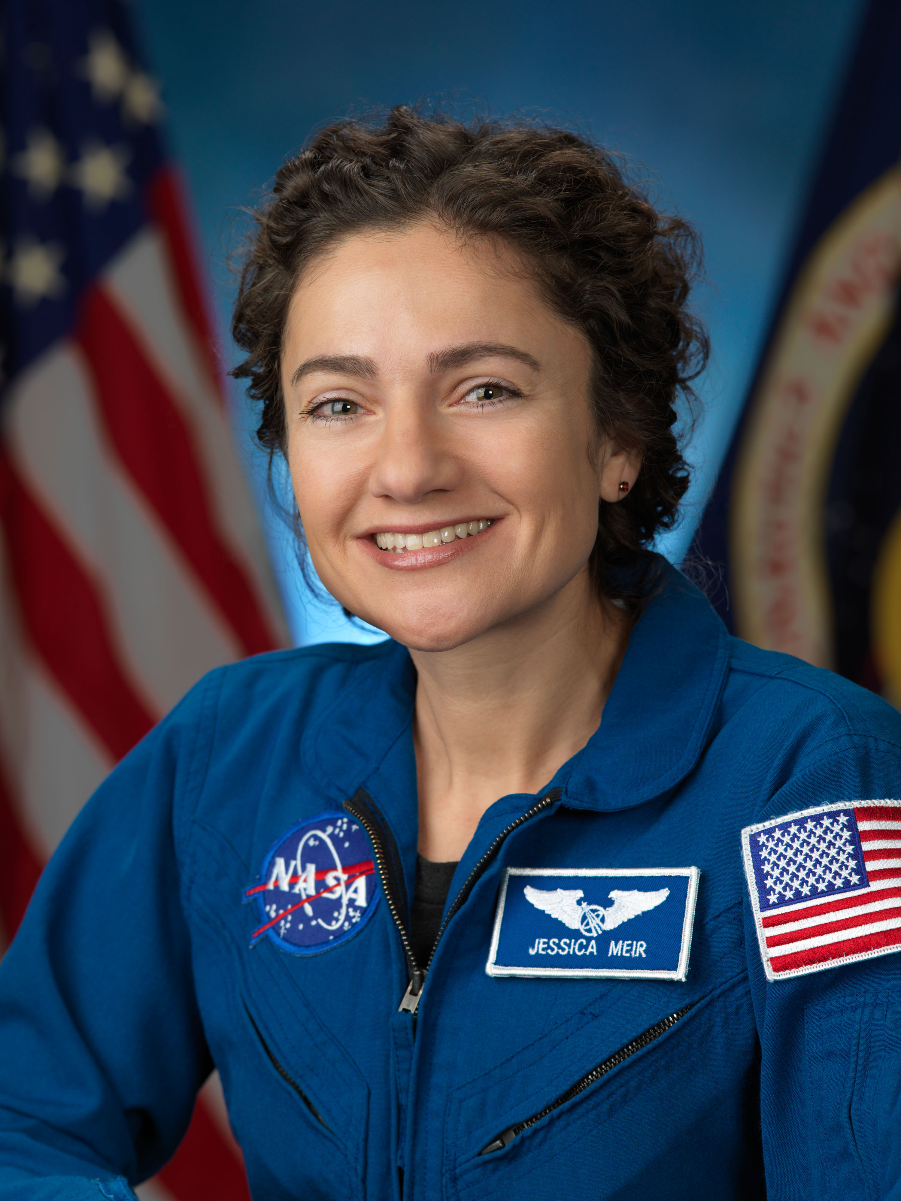 JSC2014-E-009418. Jessica U. Meir, NASA astronaut candidate class of 2013.